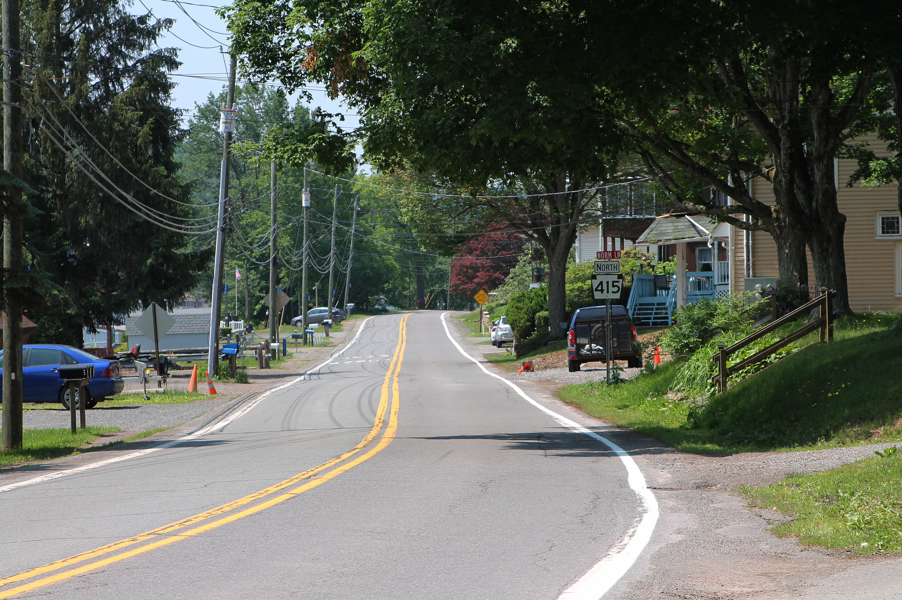 Pennsylvania Route 415 north in Harveys Lake, on the lake's northern side